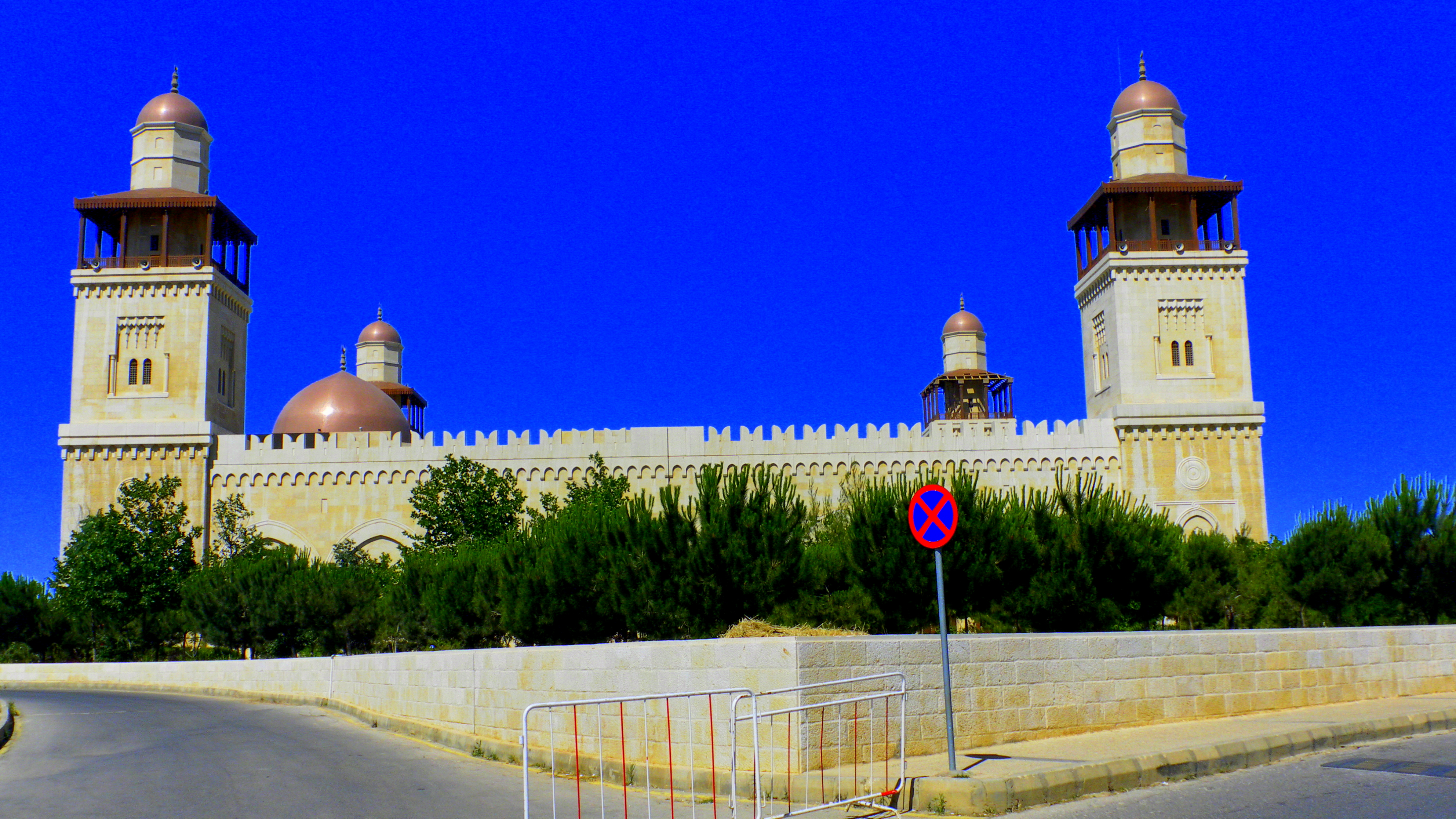 King Hussain Mosque